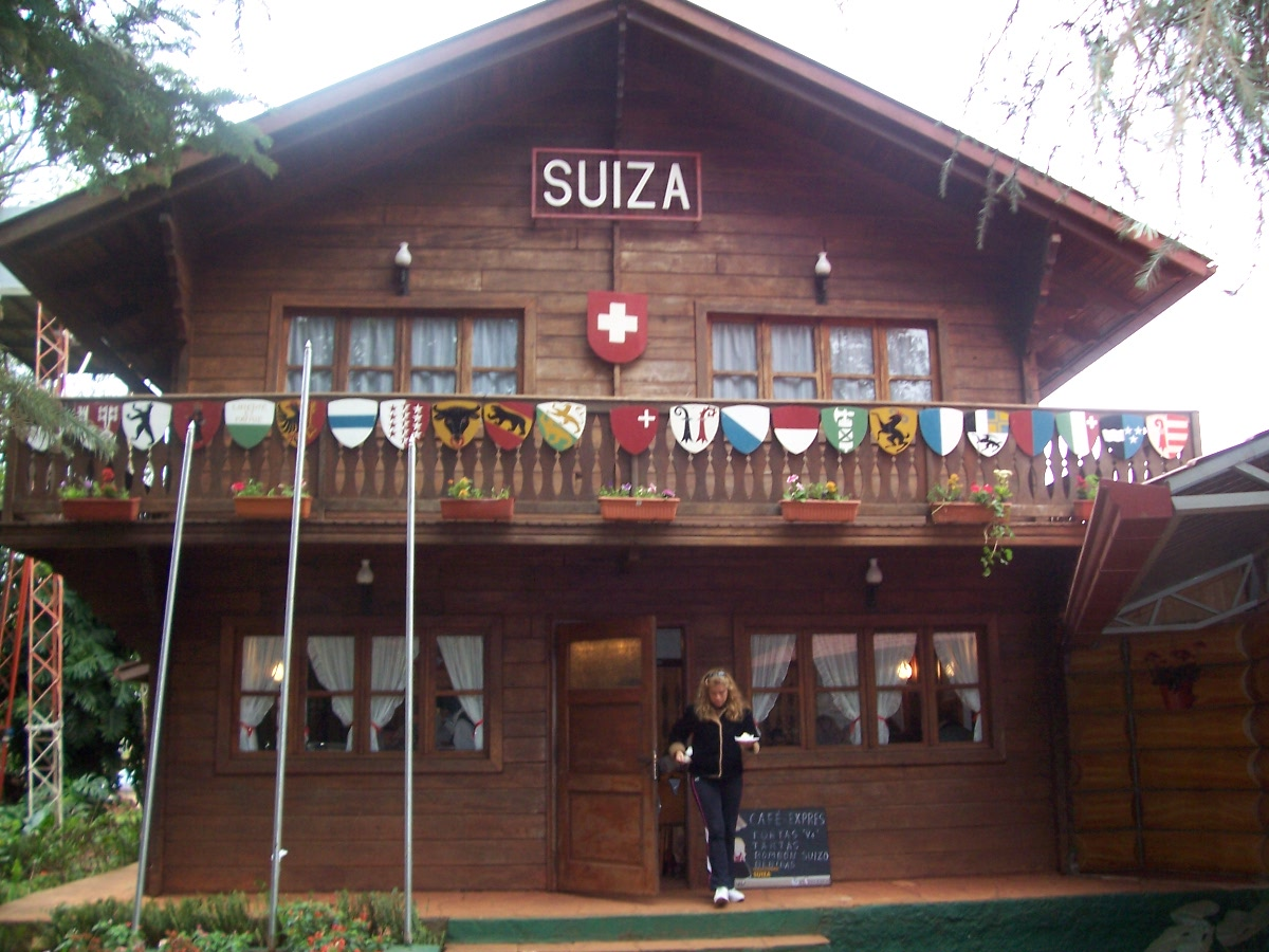 Picture of the Swiss House, in the Park of the Nations, within the framework of XXVI the National Immigrant's Festival, in Oberá, Misiones, Argentina.